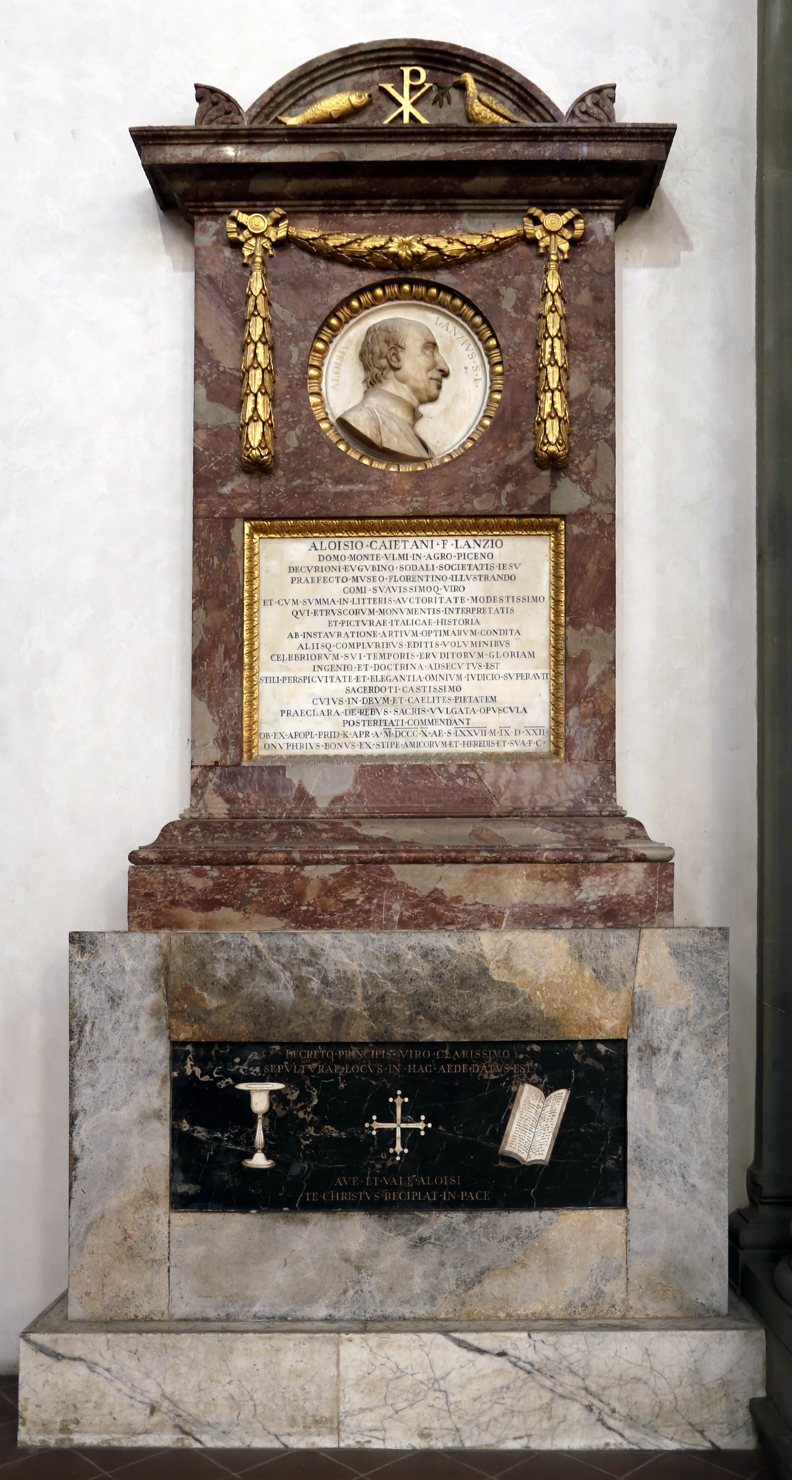 Interior of the Basilica of Santa Croce (Florence)